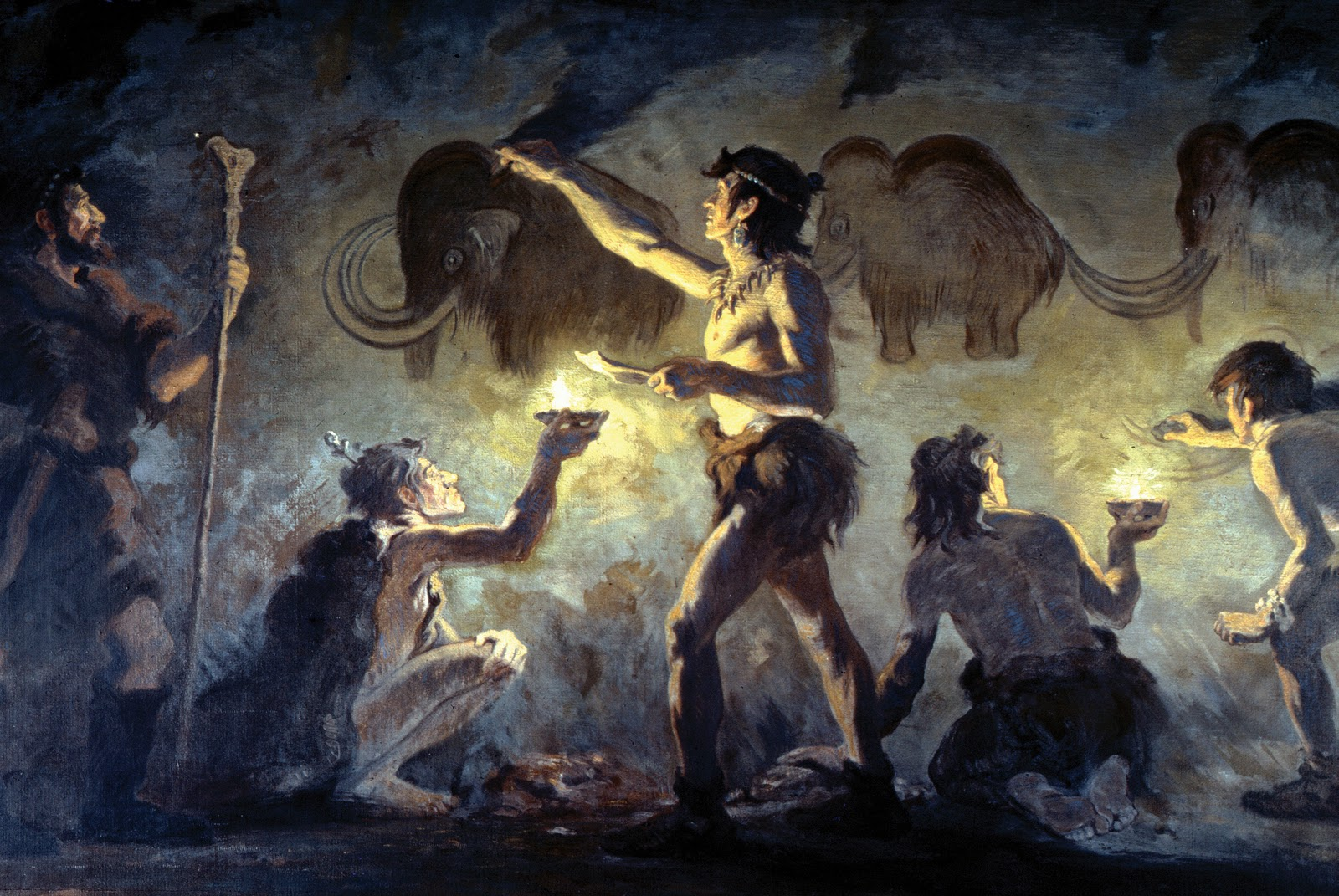 Cro-Magnon artists painting woolly mammoths in Font-de-Gaume, AMNH.